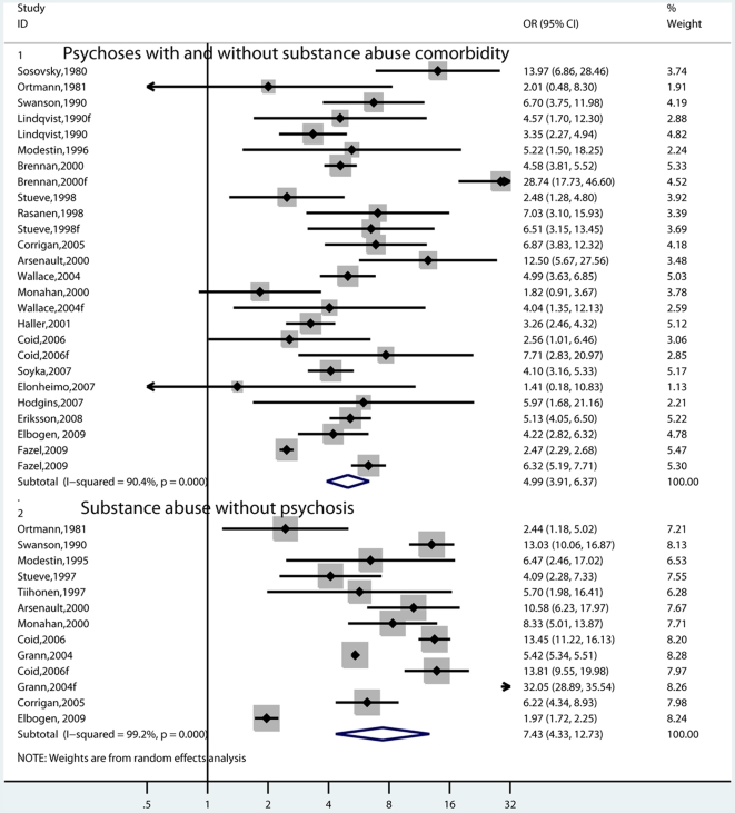 Note: Psychoses studies include individuals with psychotic disorders of both genders with and without substance abuse comorbidity. Substance abuse studies involve risk estimates of violence in individuals of both genders with a diagnosis of substance abuse.